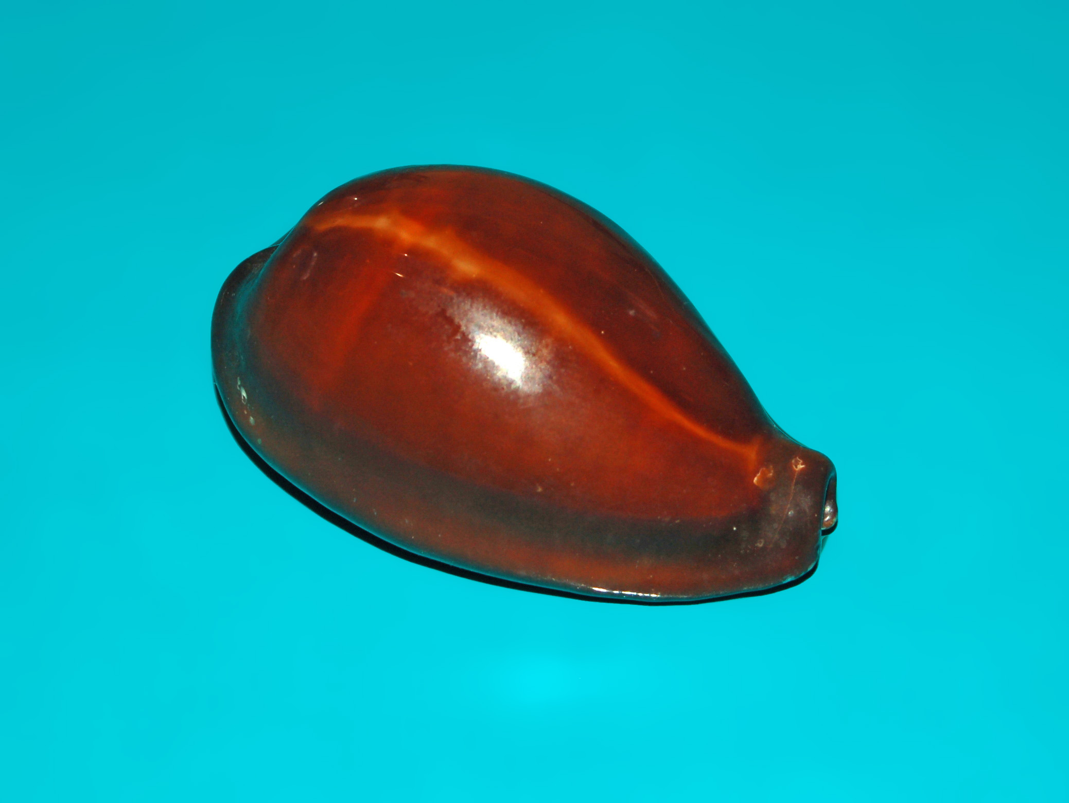 Erronea succincta adusta - Zanzibar